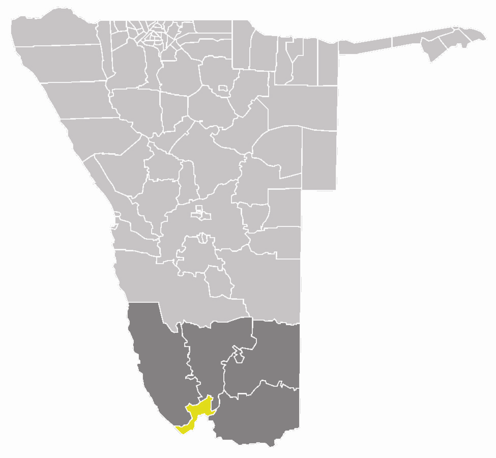 map of the Oranjemund constituency within the Karas region, Namibia